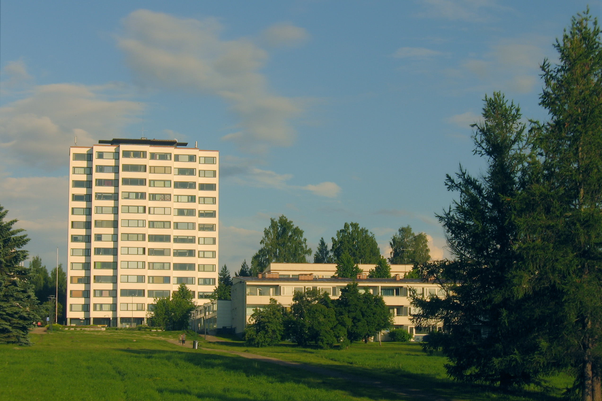 Viitatorni in Viitaniemi, Jyväskylä, Finland.